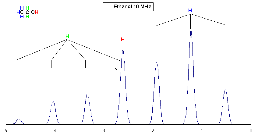 1H-NMR spectrum of Ethanol, calculated on base of the numbers present at on novembre, 14 2009. The graph is calculated in Excel. TMS=0 at 10 MHz at low resolution. In combination with C02H06O01_Ethanol_10MHz_high resolution.GIF it clearifies the need for high magnetic field in NMR.